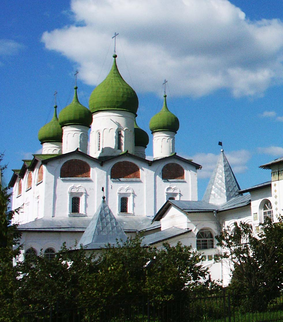 Vyazhistchkiy closter (near Novgorod). End of the XIVth century